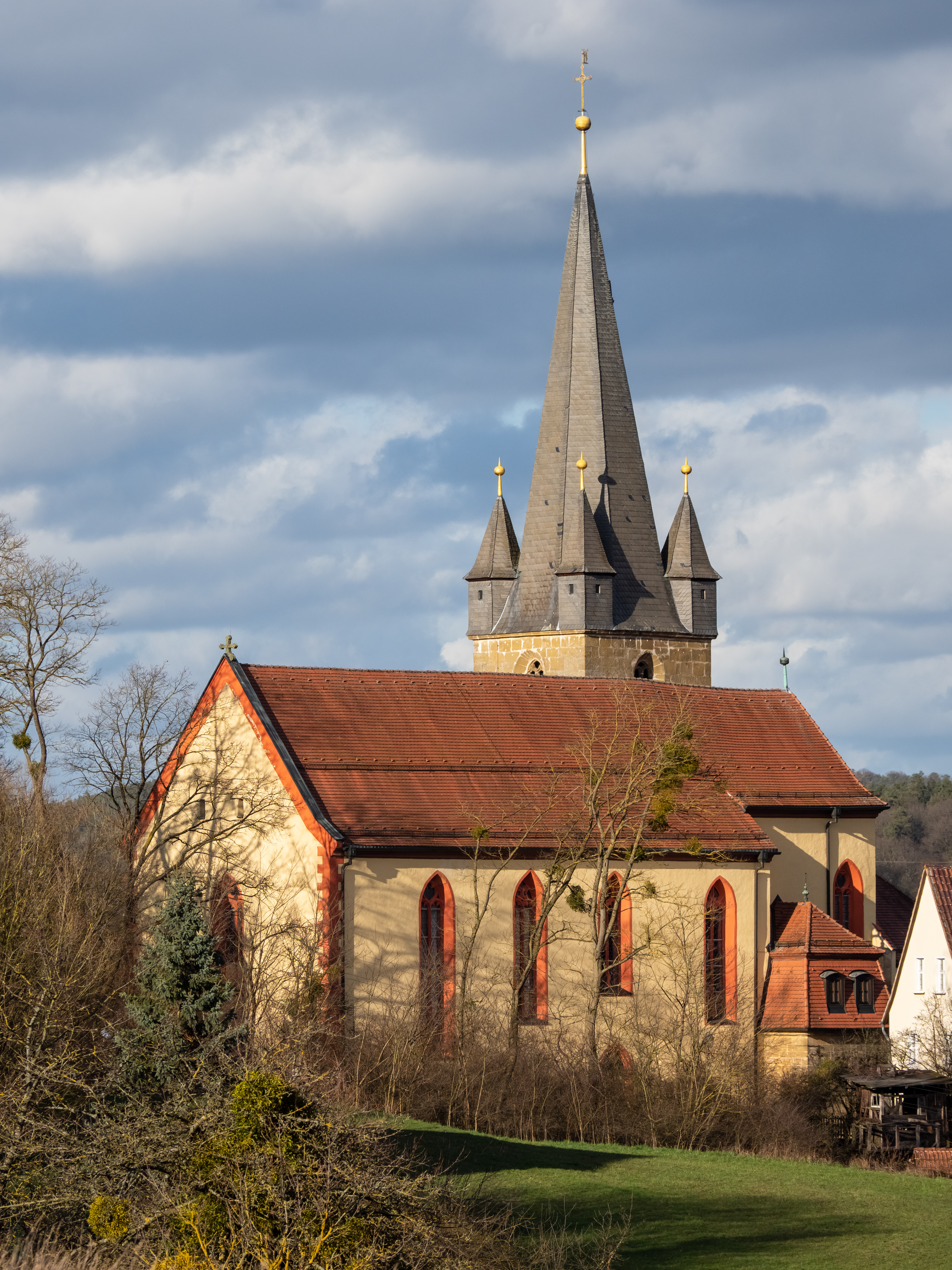 Catholic parish church St. Sebastian in Mürsbach